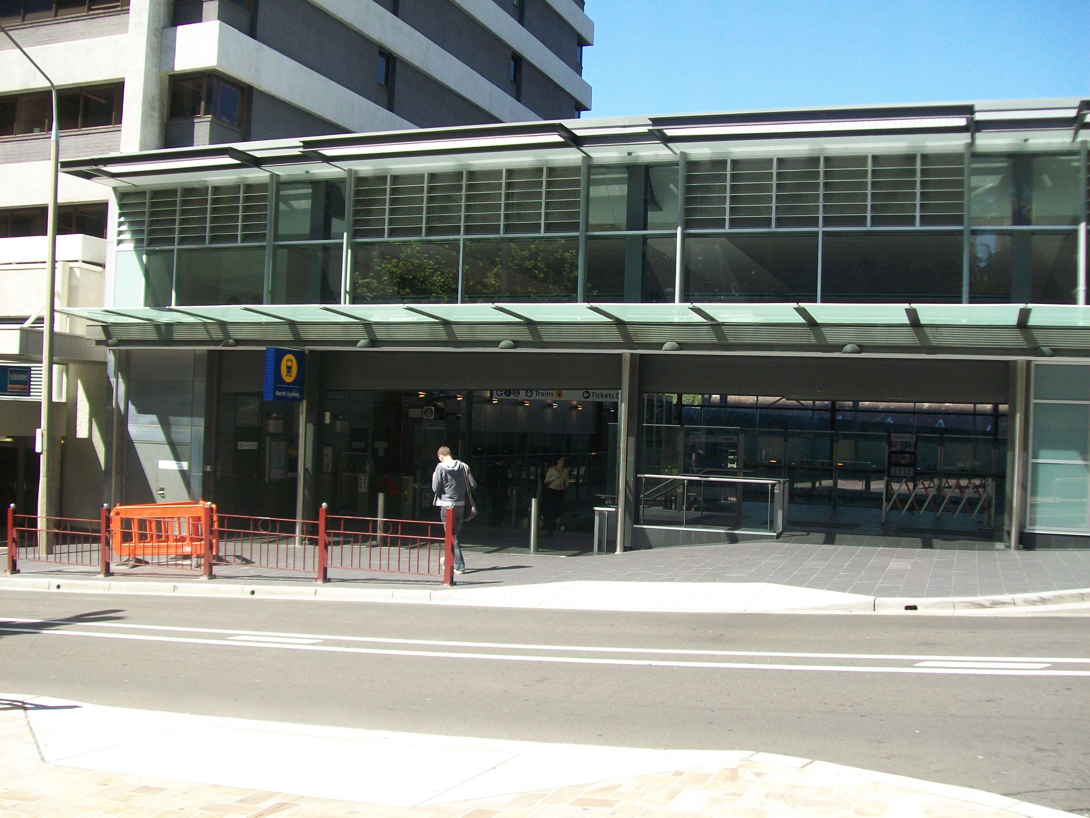 North Sydney railway station entrance